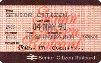 Senior Citizen Railcard with brown upper and lower bands and brown background "Senior Citizen Railcard" wording. Scanned from my own collection.